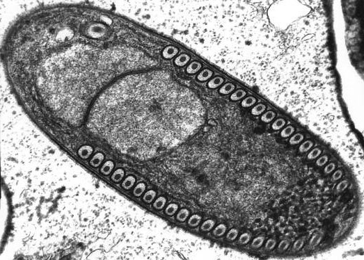 Image come from english Wikipedia page: Sporoblast of the Microsporidium Fibrillanosema crangonycis. Electron micrograph taken by Leon White.